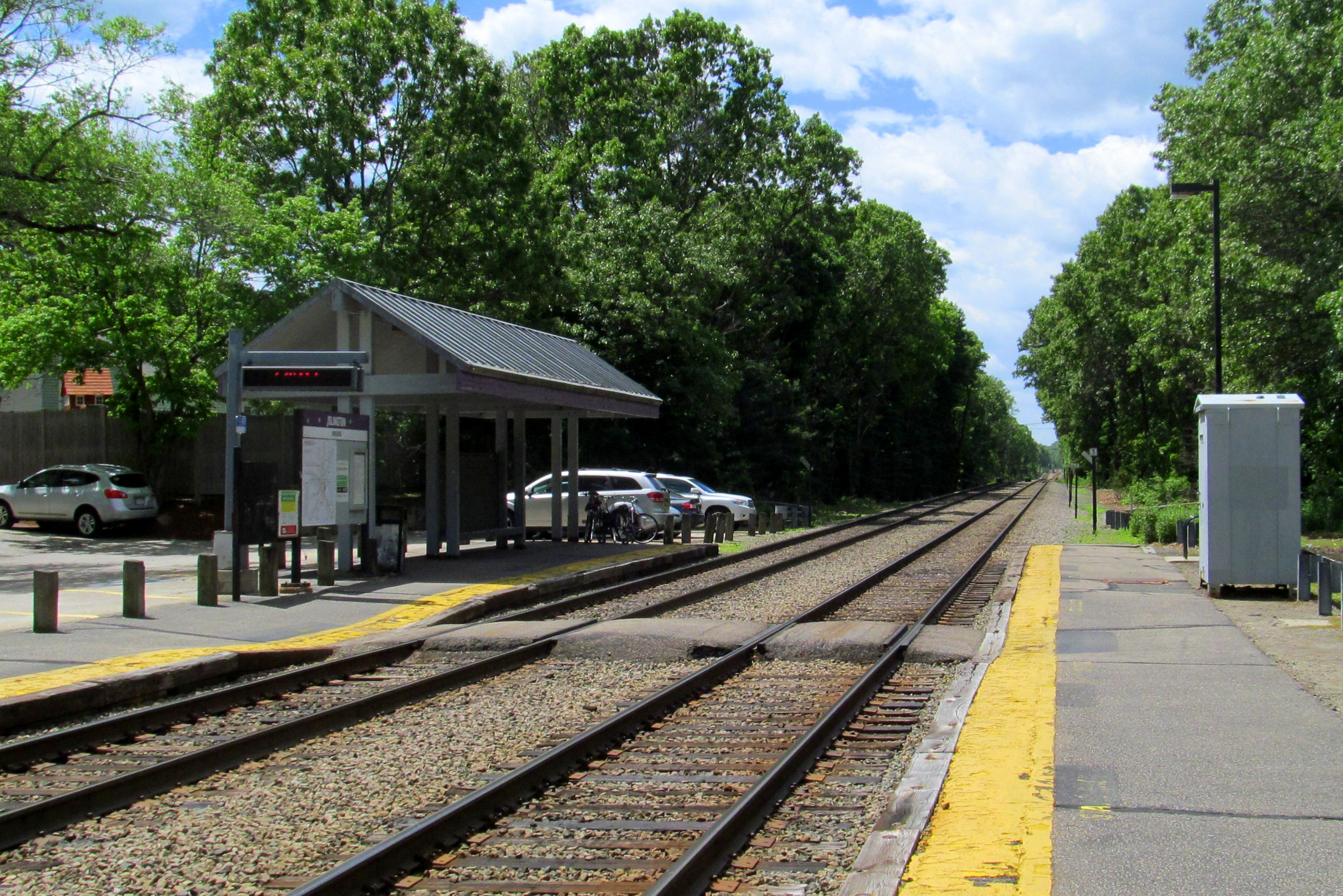 Pedestrian crossing at Islington station in June 2017